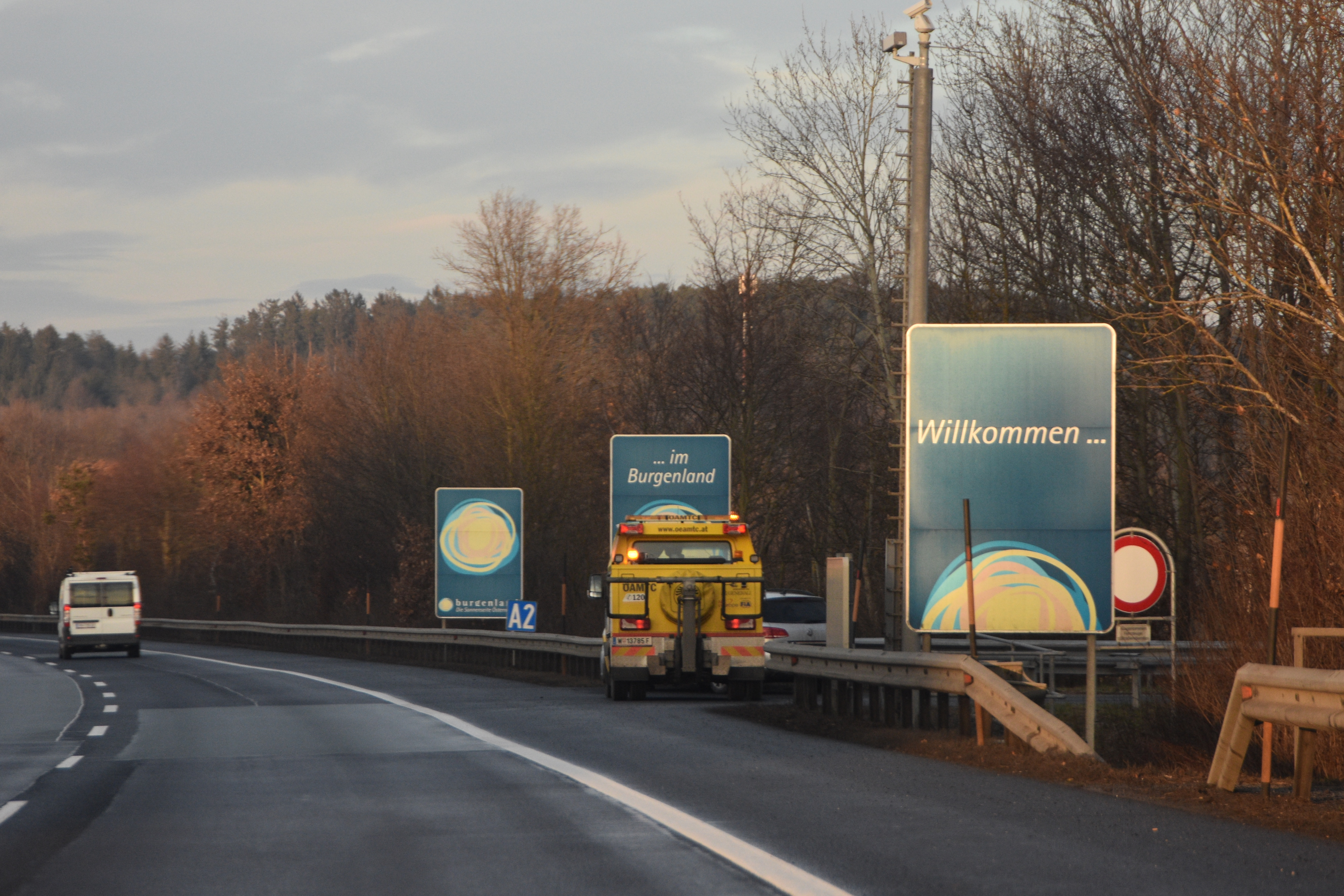 Süd Autobahn A2 in Burgenland